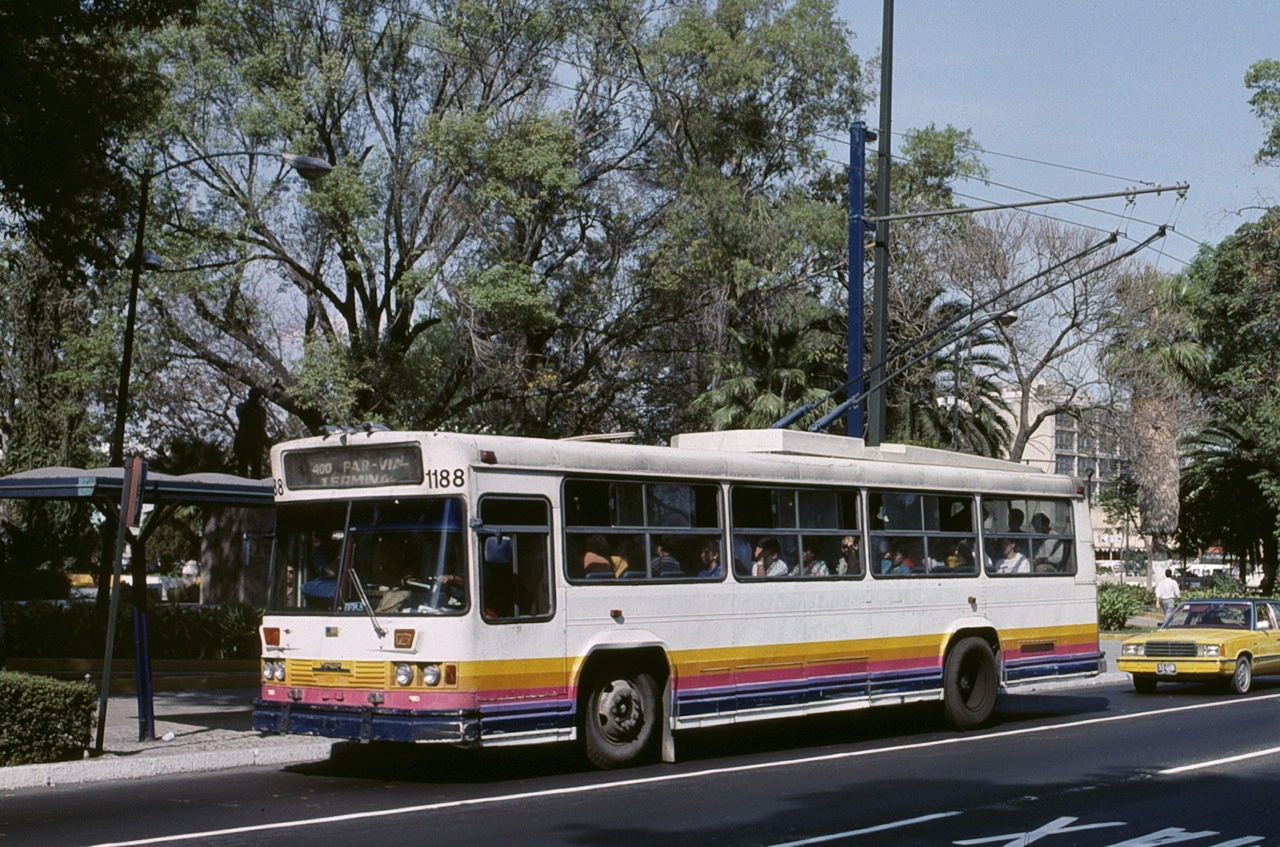 Trolleybus 1188 of Guadalajara's Sistecozome, westbound on route 400 "Par Vial", on Avenida Juaréz at Parque de la Revolución in 1990. The vehicle was built in 1985 by MASA.